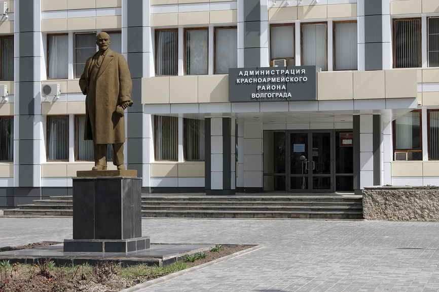 Ленин (Красноармейский район Волгограда)